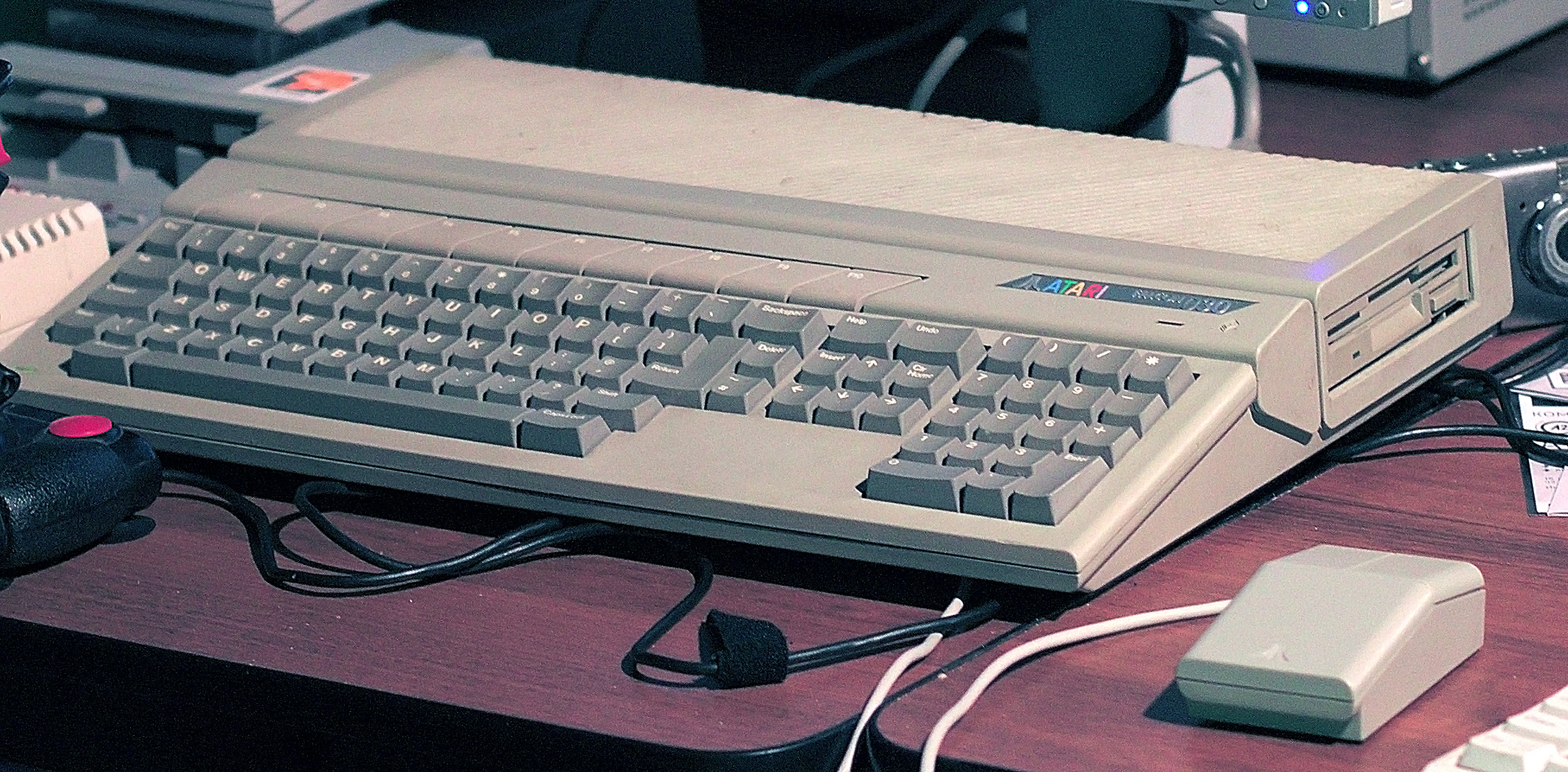 Angled view of the Atari Falcon 030